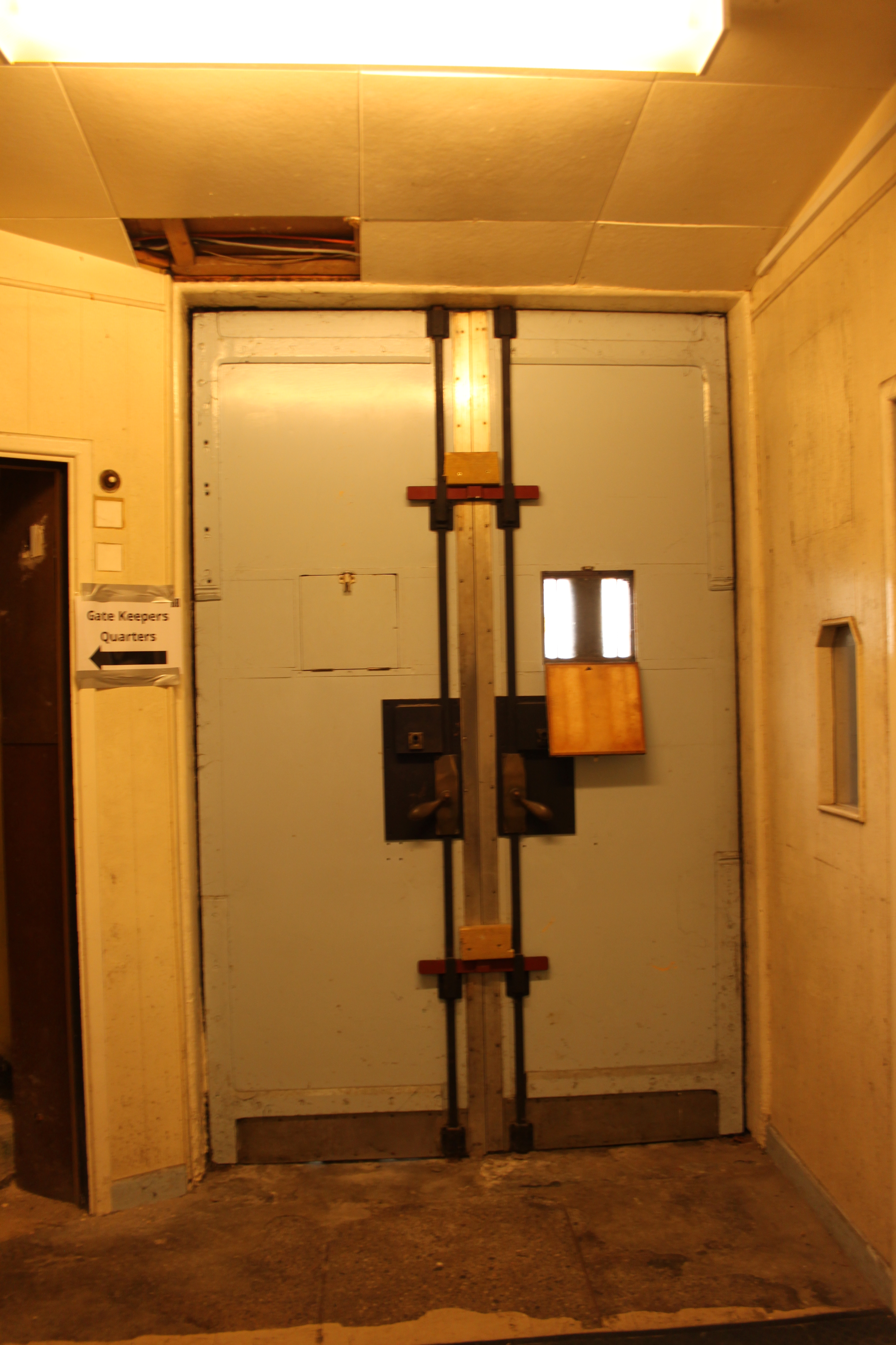 Photos of HMP Shepton Mallet taken March 2018